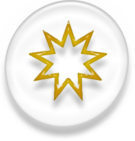 Symbol of the Bahá'í Faith, white and golden version.